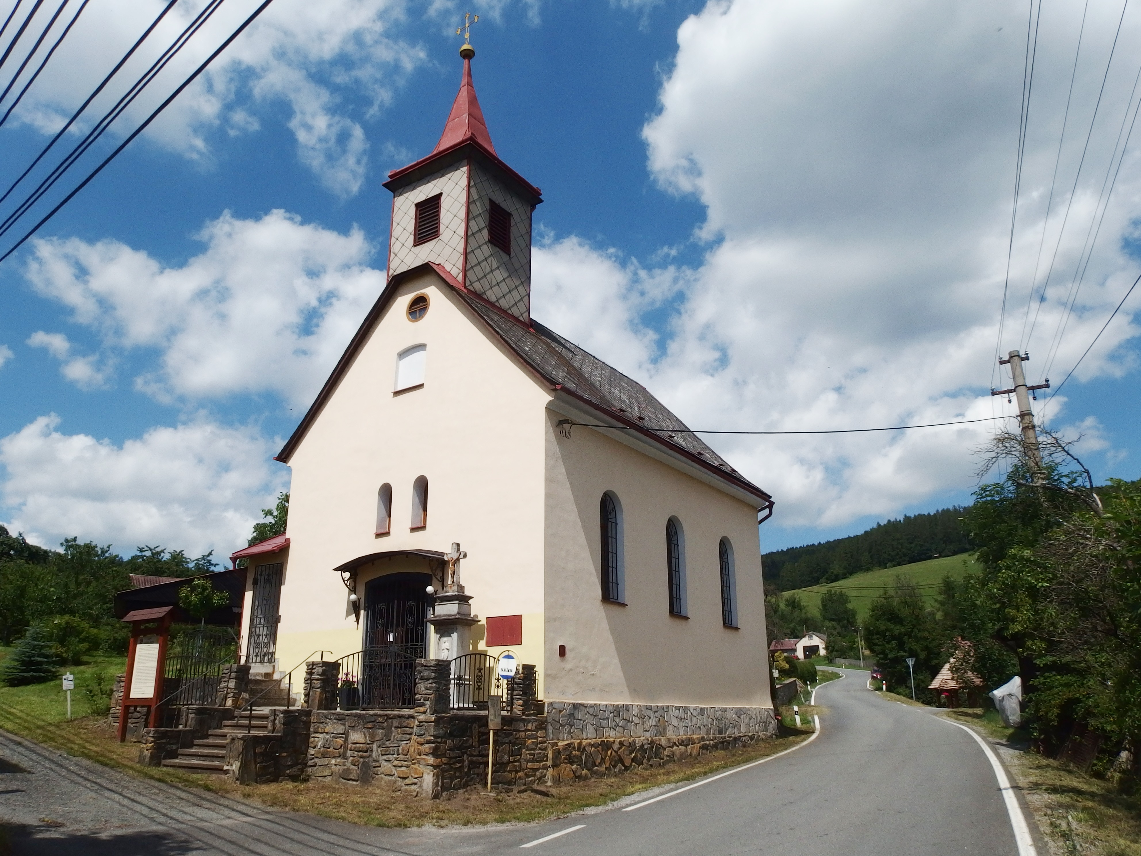 Janoušov, Šumperk District, Czechia.